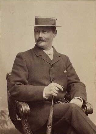 Carl Ferdinand Andersen (1846-1913), Danish painter and educator